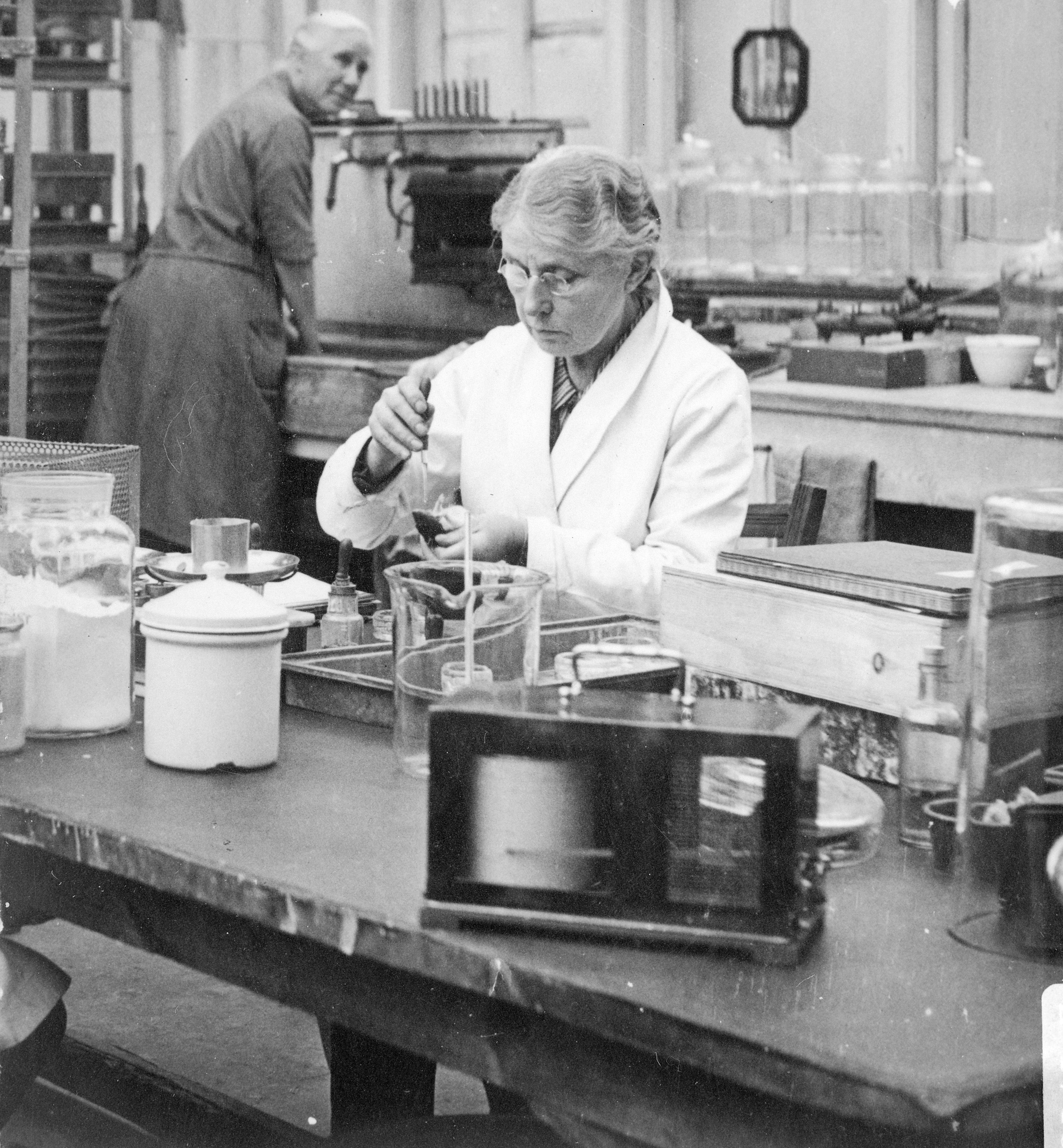 Harriette Chick, in conservatory animal house at Roebuck House Archives & Manuscripts Keywords: chick, hariette; cmac: sa/lis; cmac: sa/lis@ copping, a. m.; Portraits; Harriette Chick